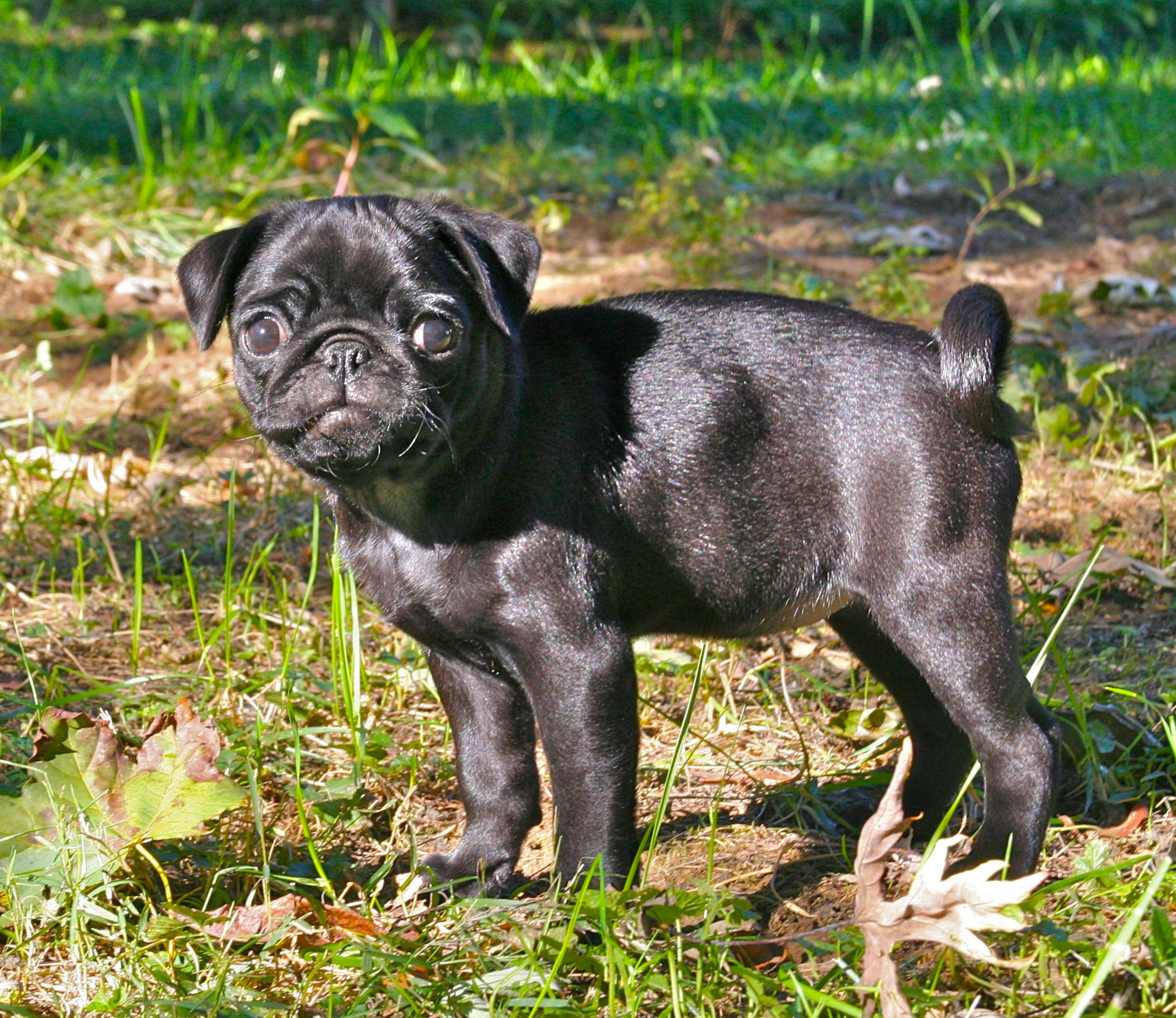 Black pug puppy